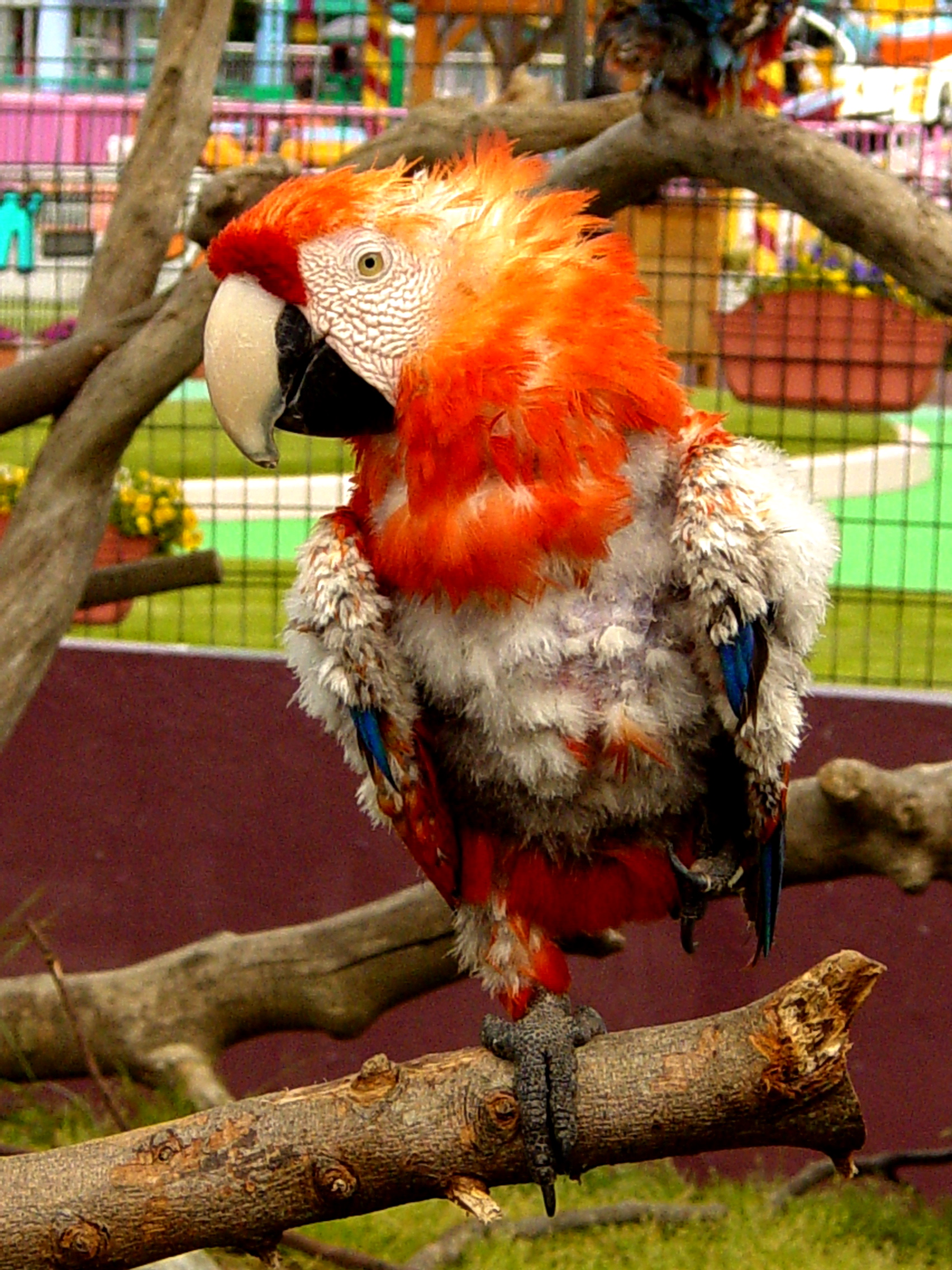 A Scarlet Macaw with severe feather loss (probably due to feather plucking) in a Zoo in Japan.